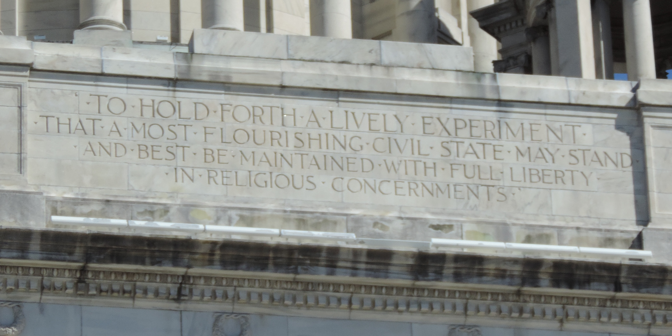 A quote made by John Clarke, located on the south-facing frieze of the Rhode Island Statehouse in Providence, Rhode Island